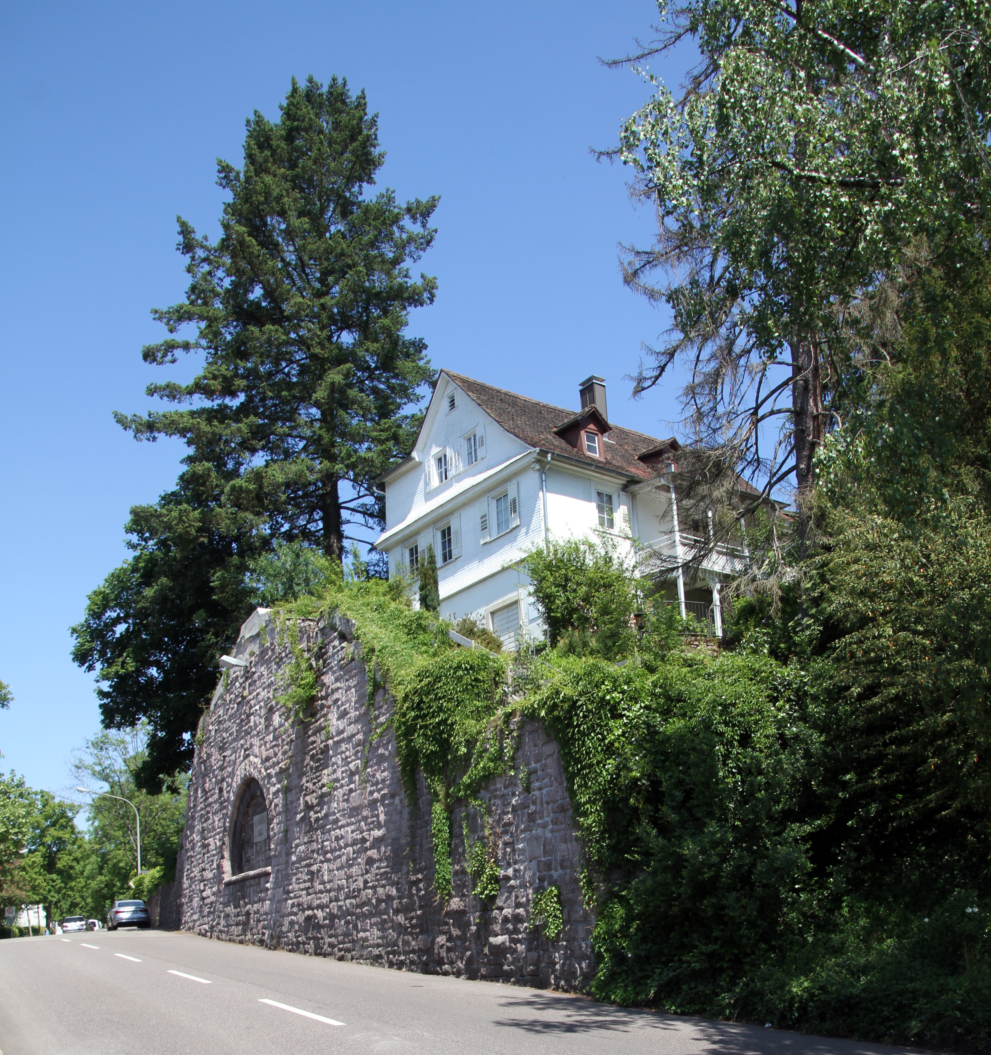 House of Brahms in Baden-Baden